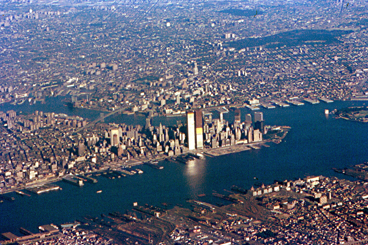 Manhattan in 1971